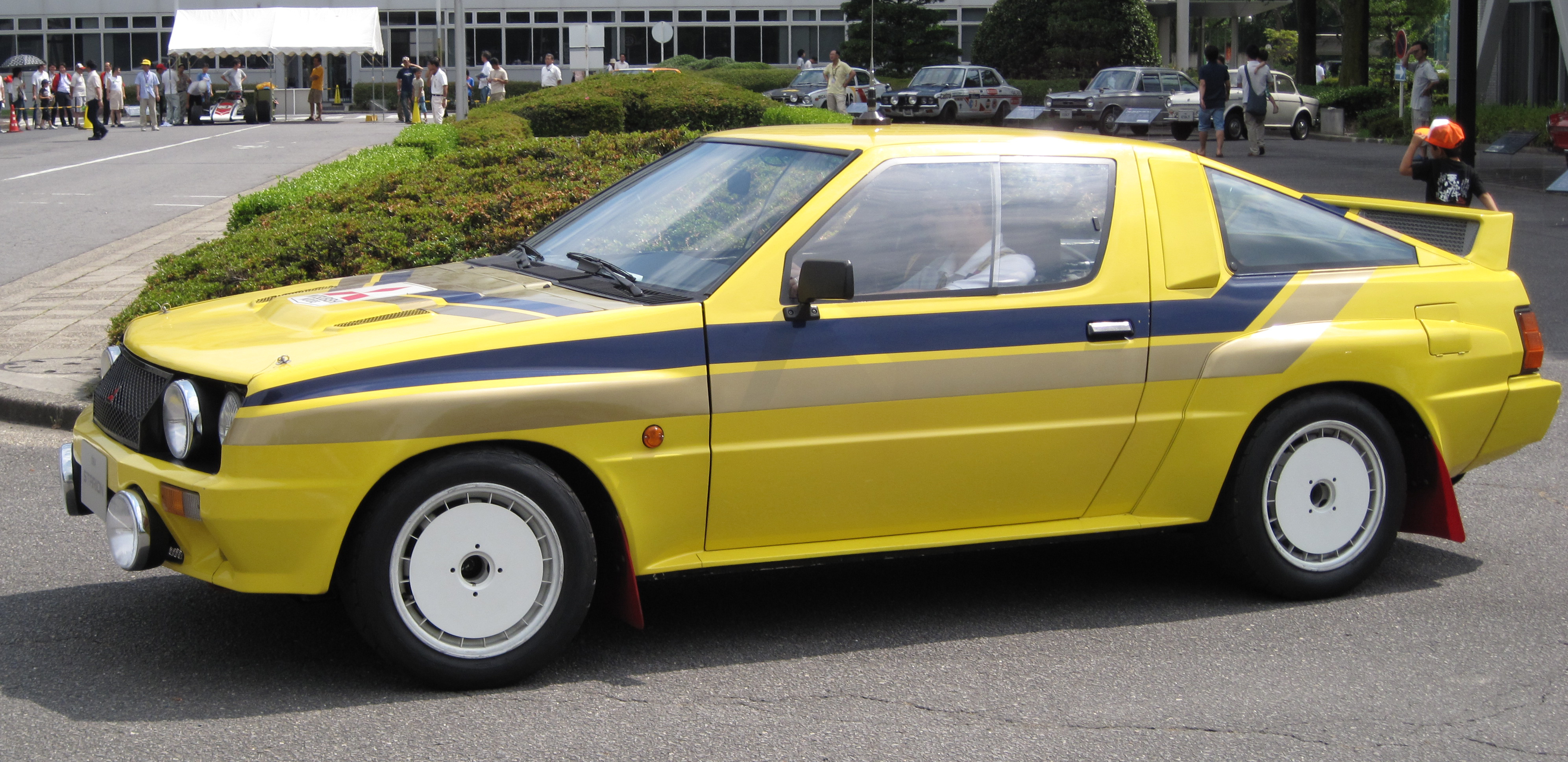 This is a photo of a Starion 4WD (intended for Group B rallying) that I took outside the museum for the Mitsubishi "Passenger Car Engineering Center" in Okazaki-city, Aichi, Japan